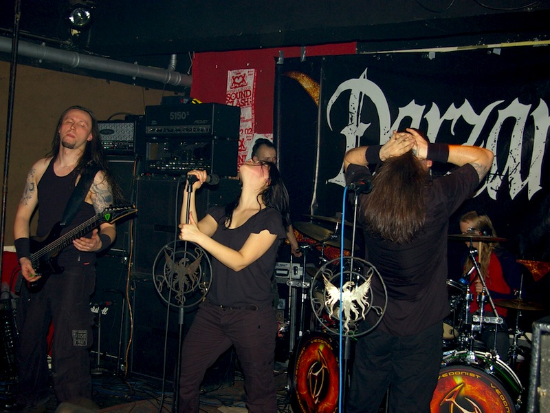 Chris, Nera, Flauros and Darkside from Darzamat on Rebellion Tour 2010.